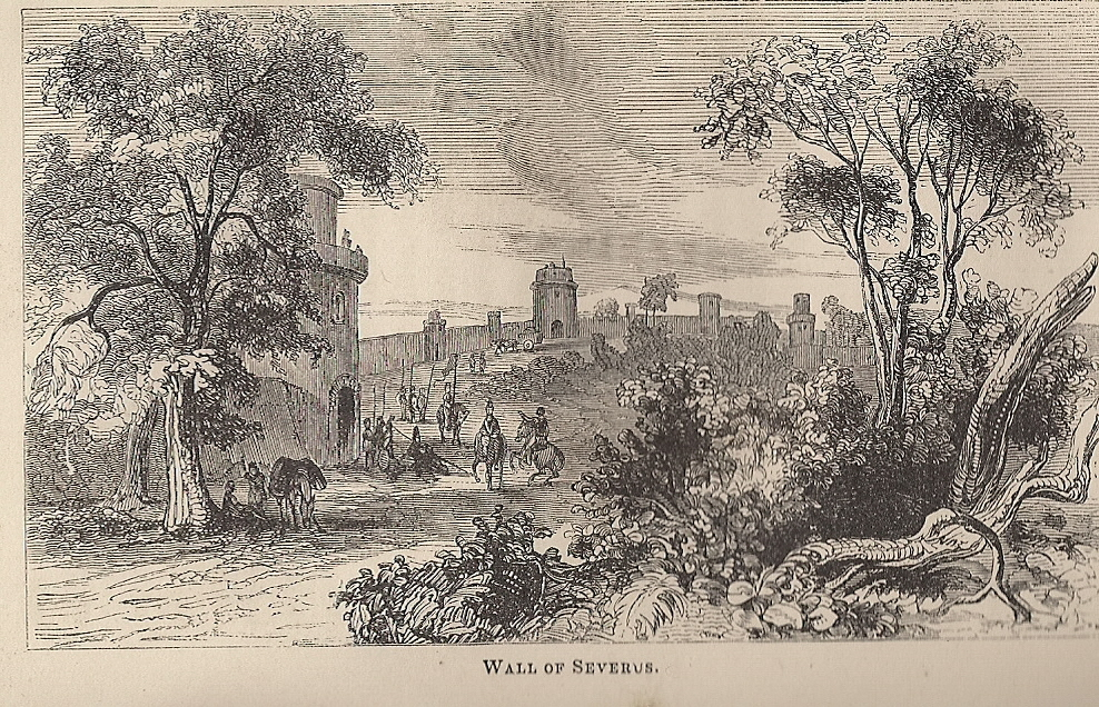 An unknown artist's engraving depicting the Wall of Severus